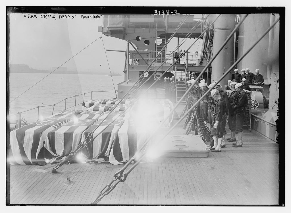 United States occupation of Veracruz with the dead aboard the USS Montana (ACR-13)